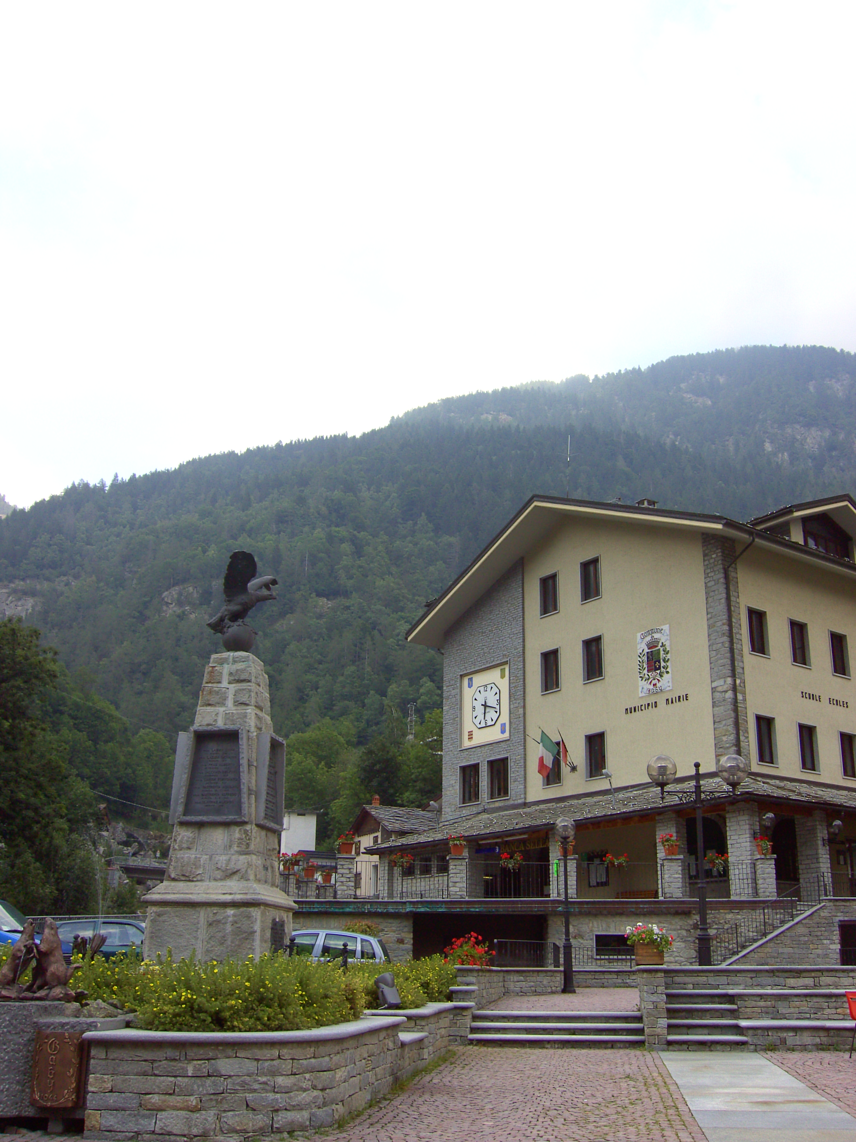 The central square and the town hall in Gaby, Aosta Valley, Italy